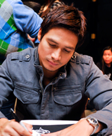 Piolo Pascual as photographed by Ronn Tan, April 2010.